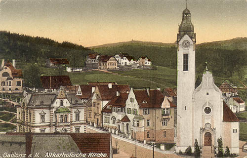 Photographic postcard of the Old Catholic Parish Church of Gablonz an der Neisse.